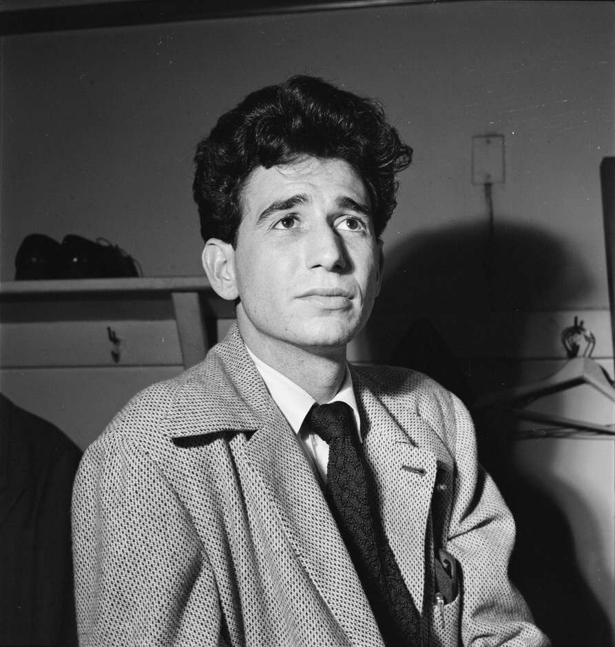 Shelly Manne December 1946. Photography by William P. Gottlieb